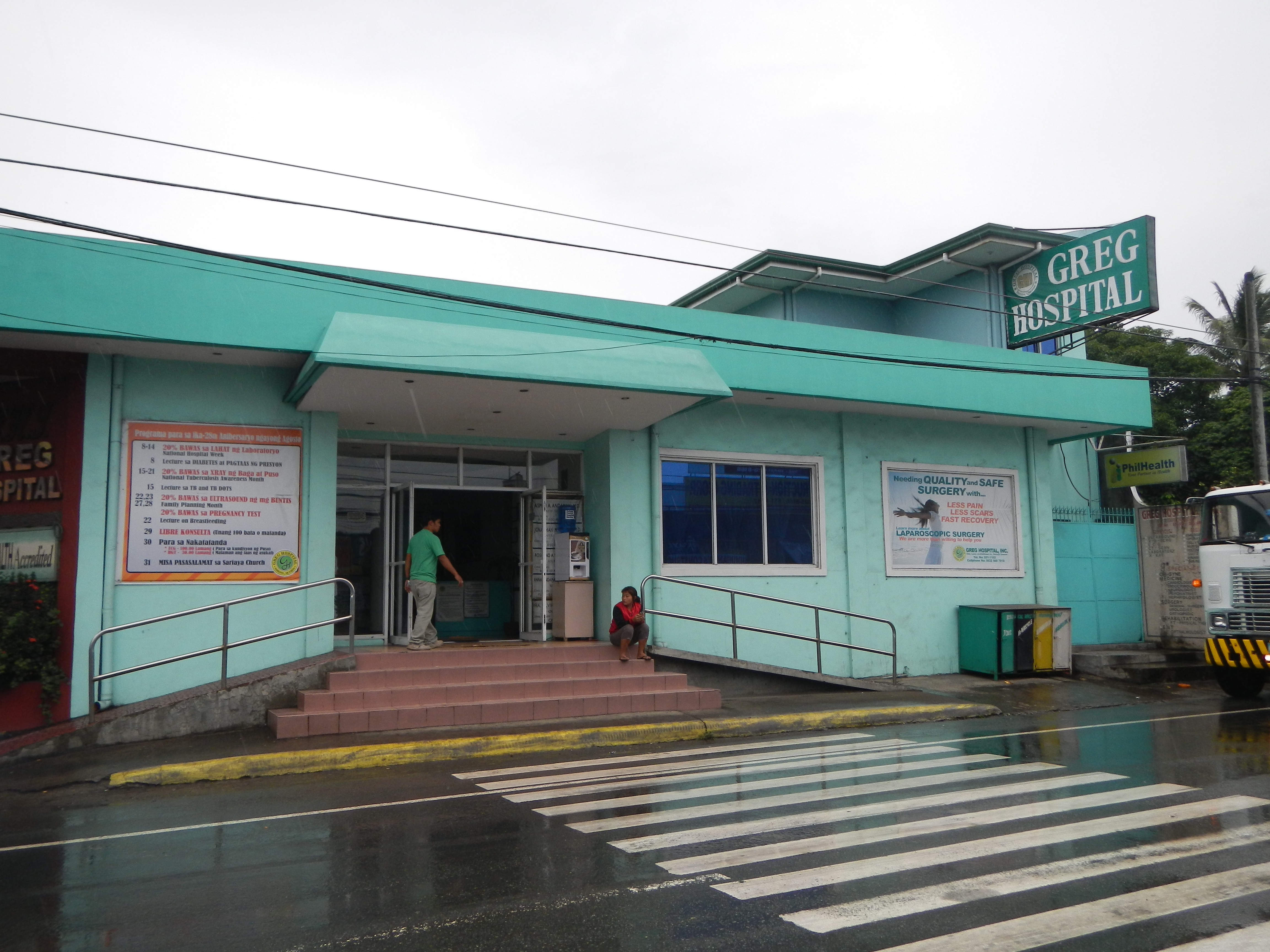 Upload Wizard -- (general description of landmarks, town, church) - of - Sariaya, Quezon [1] - Barangay Poblacion I, Welcome Arch of Sariaya, Quezon at the Quianuang Bridge of Sariaya (B03091LZ with reinforced concrete box culvert including approaches km.118+672 along Manila South Road[2][3]).[4], Greg Hospital, Sariaya River [5] [6] [7] Sariaya River (a stream class H - Hydrographic in Quezon, Philippines Asia with the region font code of Asia Pacific [8] coordinates are 13°52'0" N and 121°33'0" E in DMS Degrees Minutes Seconds or 13.8667 and 121.55 in decimal degrees its UTM position is UR43 and its Joint Operation Graphics reference is ND51-10), Mortilla Pasalubong building, General Luna St. cor. Reynoso St., Barangay Poblacion 1 Hall - Sariaya, Quezon [9] ([10] Region: CALABARZON (Region IV-A) 2nd district of Quezon Founded: October 4, 1599 Castanas Barangays: 43 Area 239.8 km2 (92.6 sq mi) a first class municipality in the province of Quezon, Philippines famous for beaches, resorts, heritage houses, and hiking activities Coordinates: 13°56'31"N 121°30'9"E).[11].